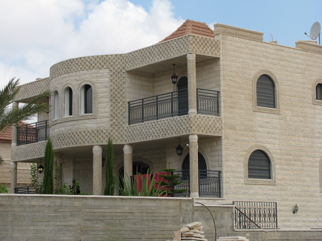 One of the most magnificent houses in the Community Segev Shalom, a large part of the extended families live in houses in several levels